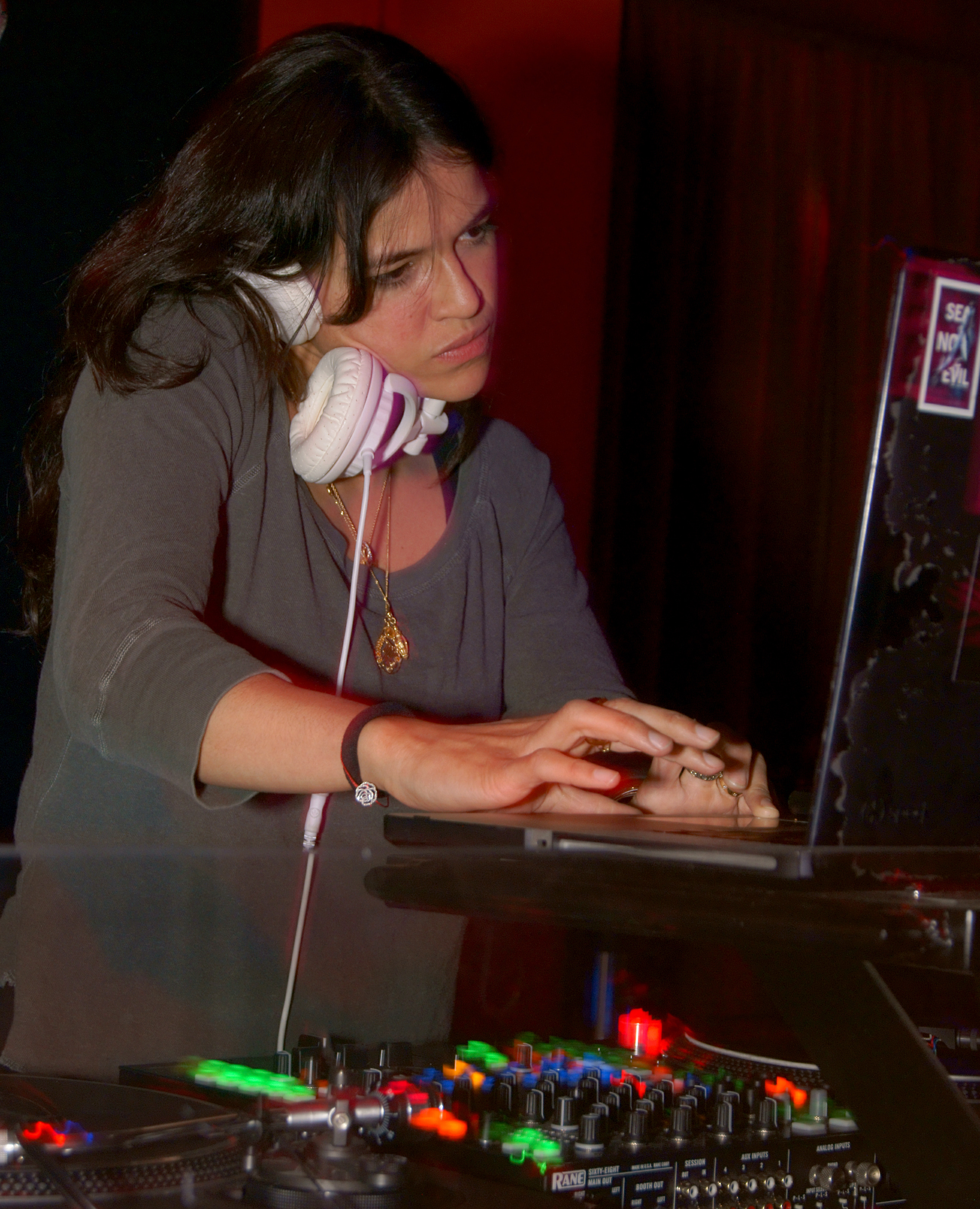 DJ Michelle Rodriguez at the Beso Cantina 2010.